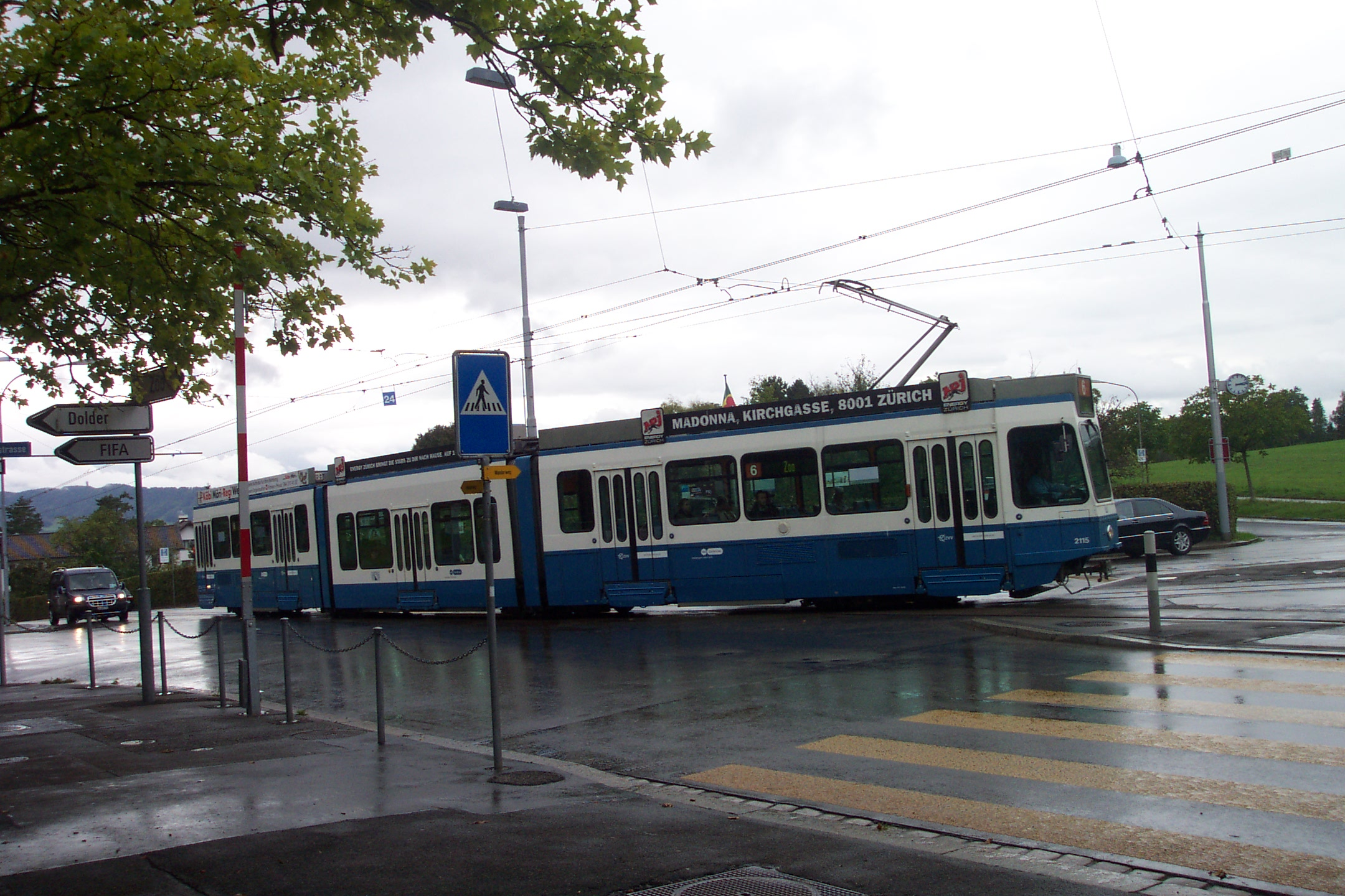 Tram 2000 Sänfte tram approaching Zurich Zoo tram stop from Krähbühlstrasse in the rain.